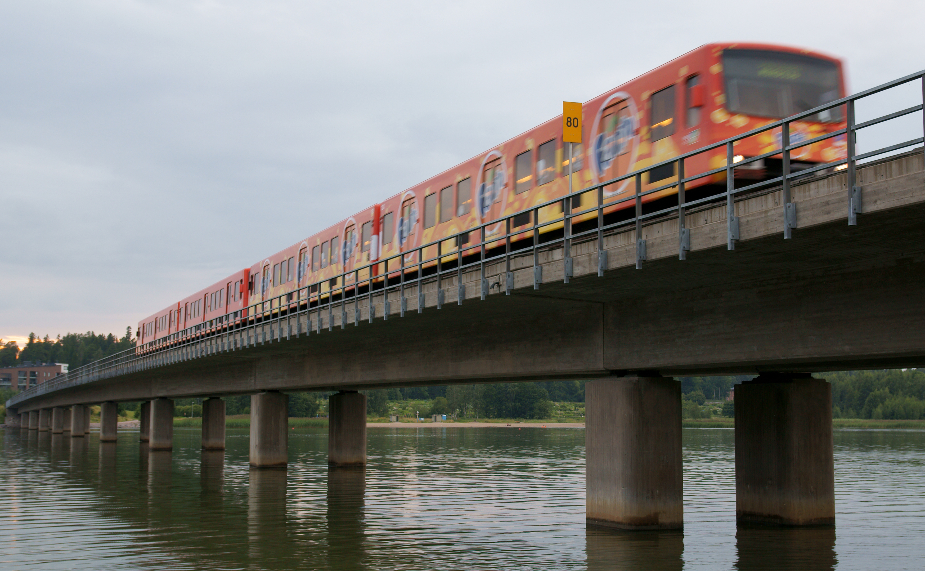 A Helsinki metro train crossing the Vuosaari metro bridge, between the stations of Rastila and Puotila.